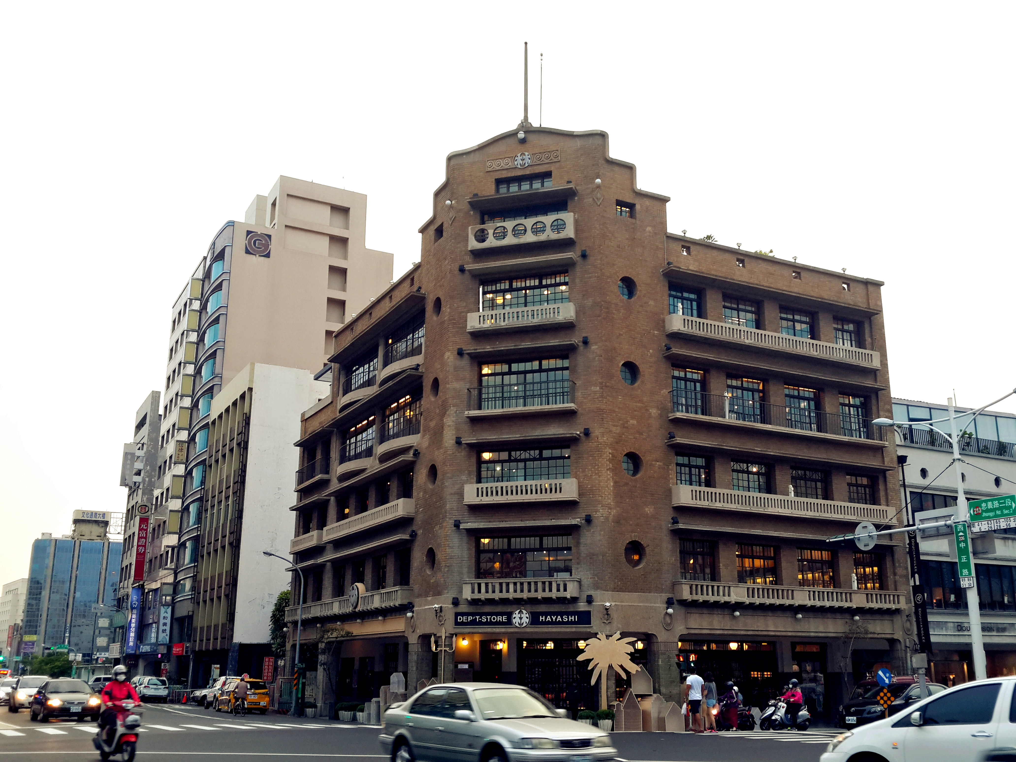 Built in 1932, it was the biggest department store in Tainan and the local once called it "Wu Ceng Lou Zi' (Owhich literally means five-story building). It was named after its Japanese owner, Mr. Hayashi, as visitors can see the character, Hayashi, shown on the window of the building. The first elevator in Tainan sits in this department store.